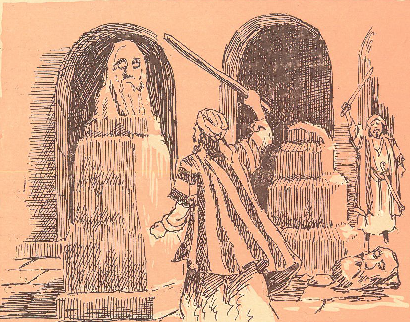 One of the Muslims breaking an Idol after the Conquest of Mecca.